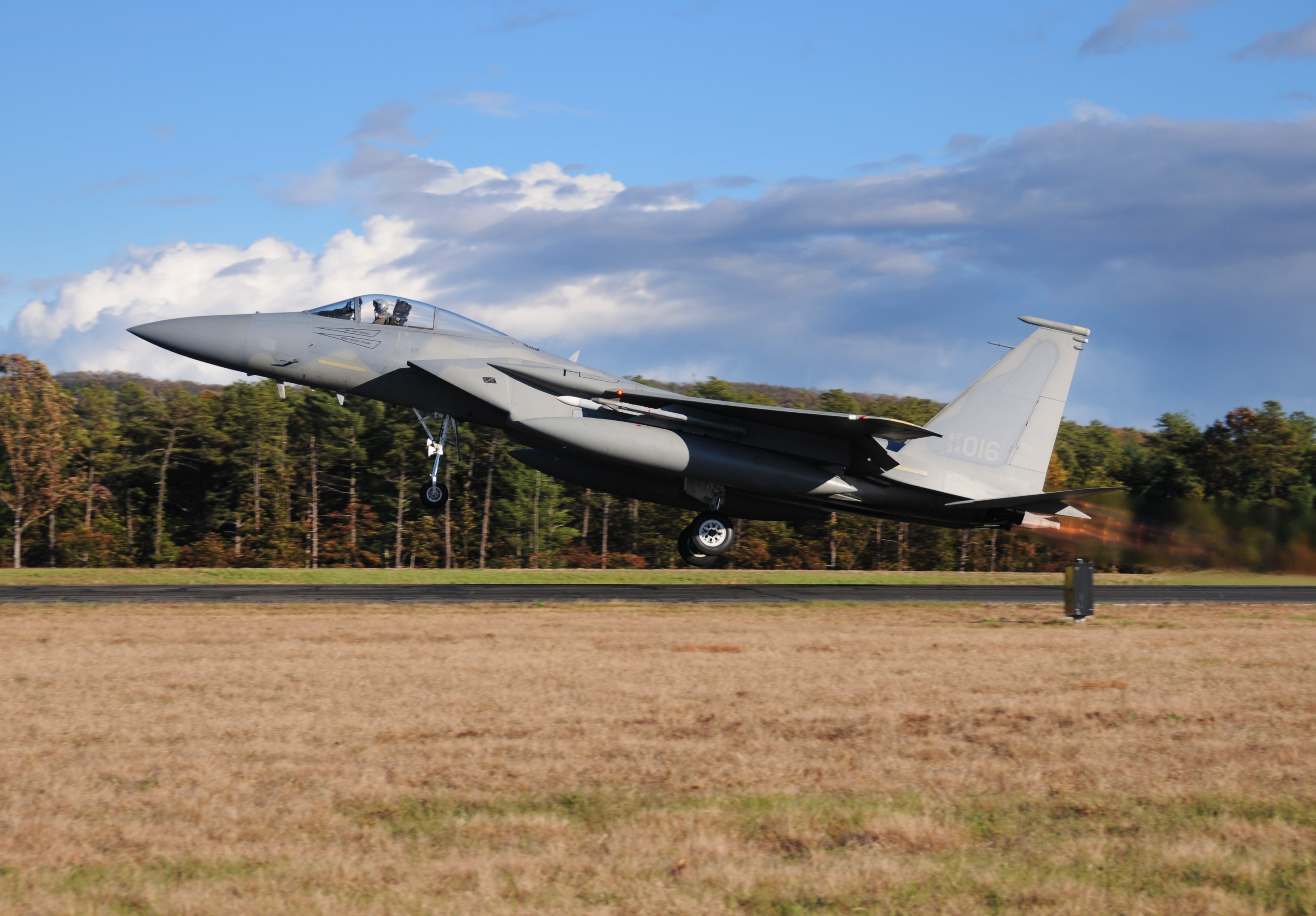 An F-15 Eagle from the 104th Fighter Wing, Massachusetts Air National Guard takes off from Barnes Air National Guard Base, Westfield Massachusetts, while participating in a training mission. The 104th Fighter Wing provides Air Sovereignty Alert support, protecting the Northeastern United States. (U.S. Air Force photo/Master Sgt. Mark Fortin)